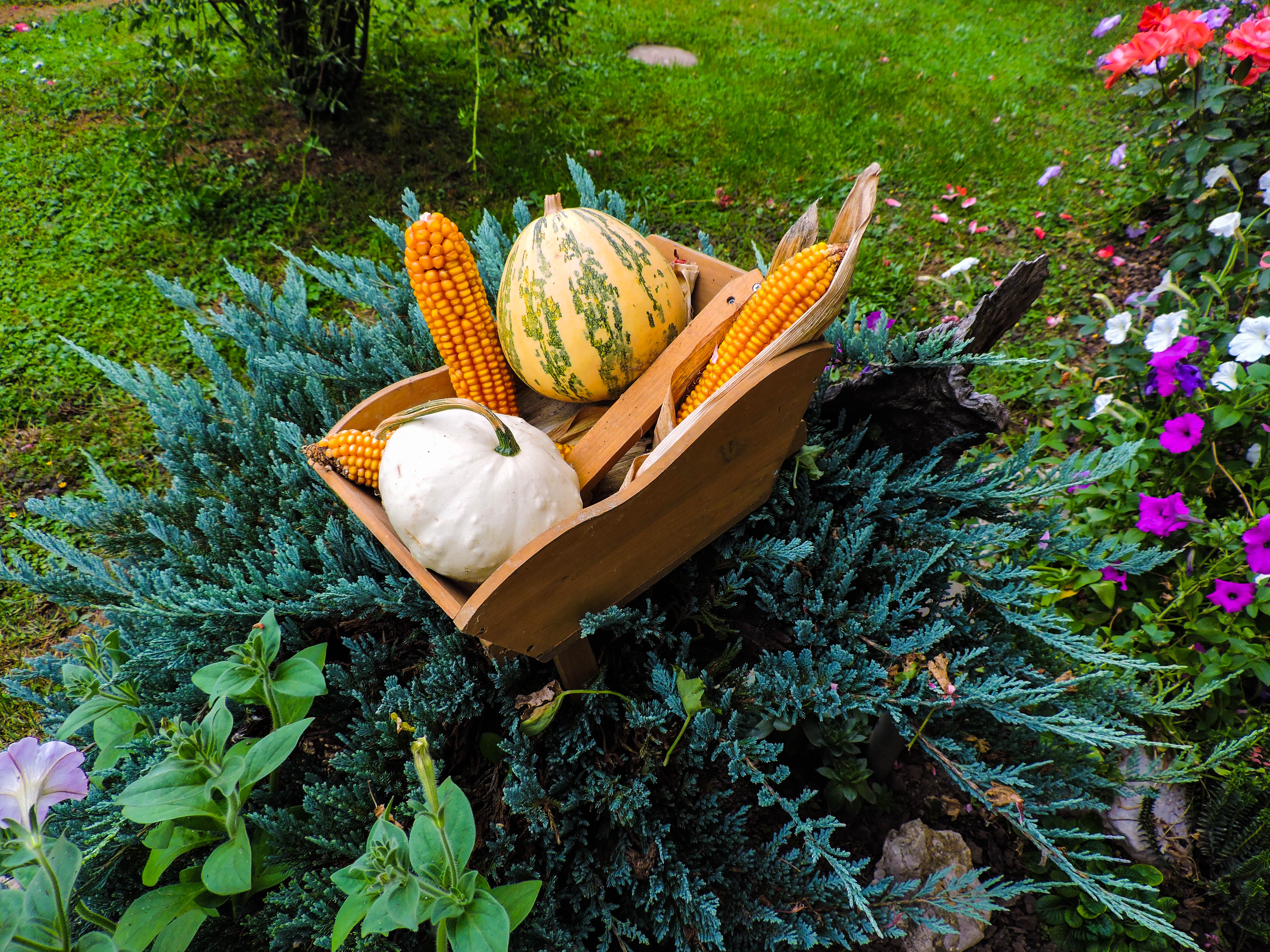 Still life with pumpkins and corn